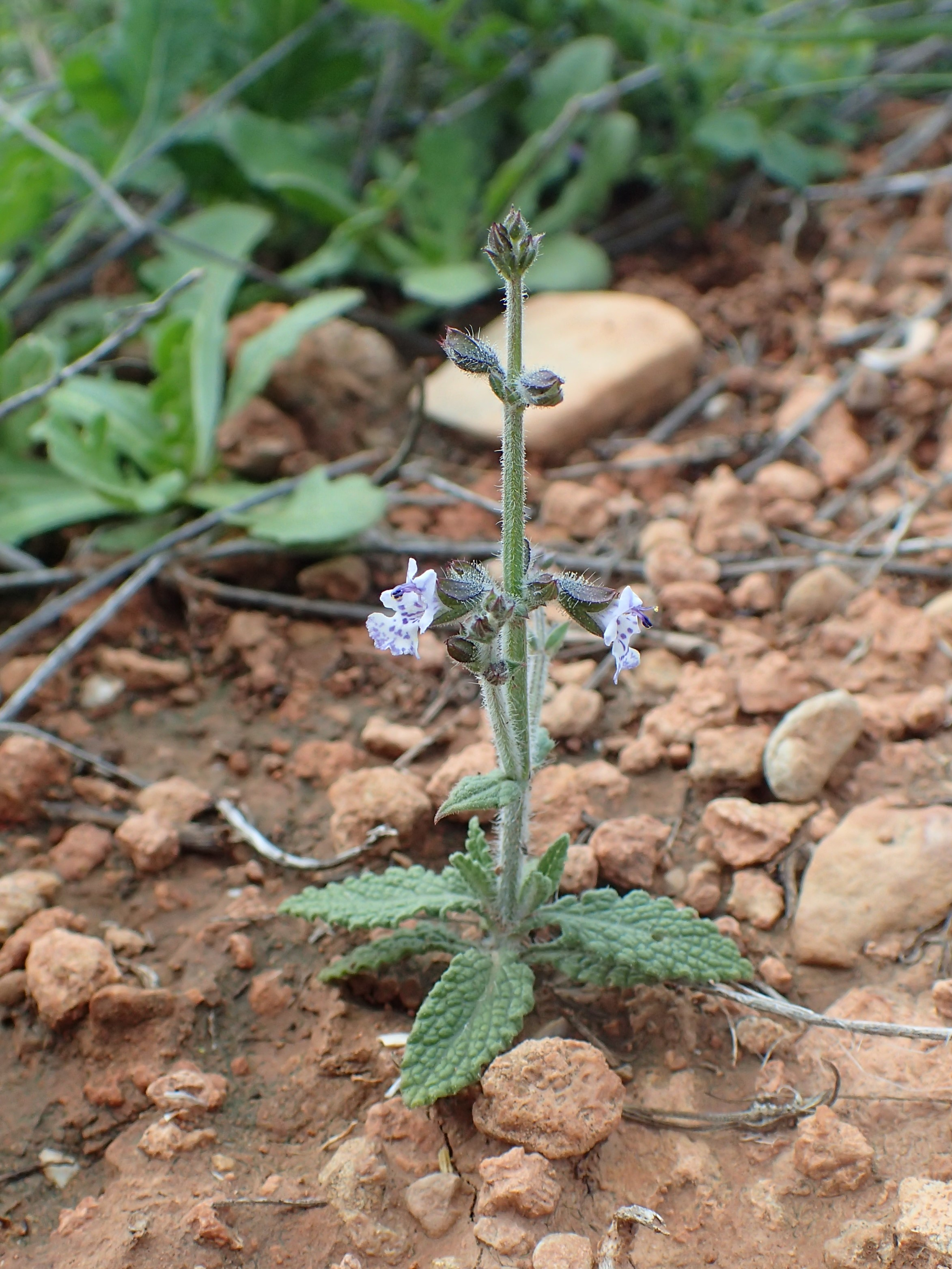 Salvia aegyptiaca in Tanant (Béni Mellal-Khénifra, Morocco)